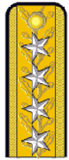 Romanian Navy Admiral insignia